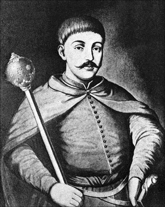 Ivan Bryushovetski